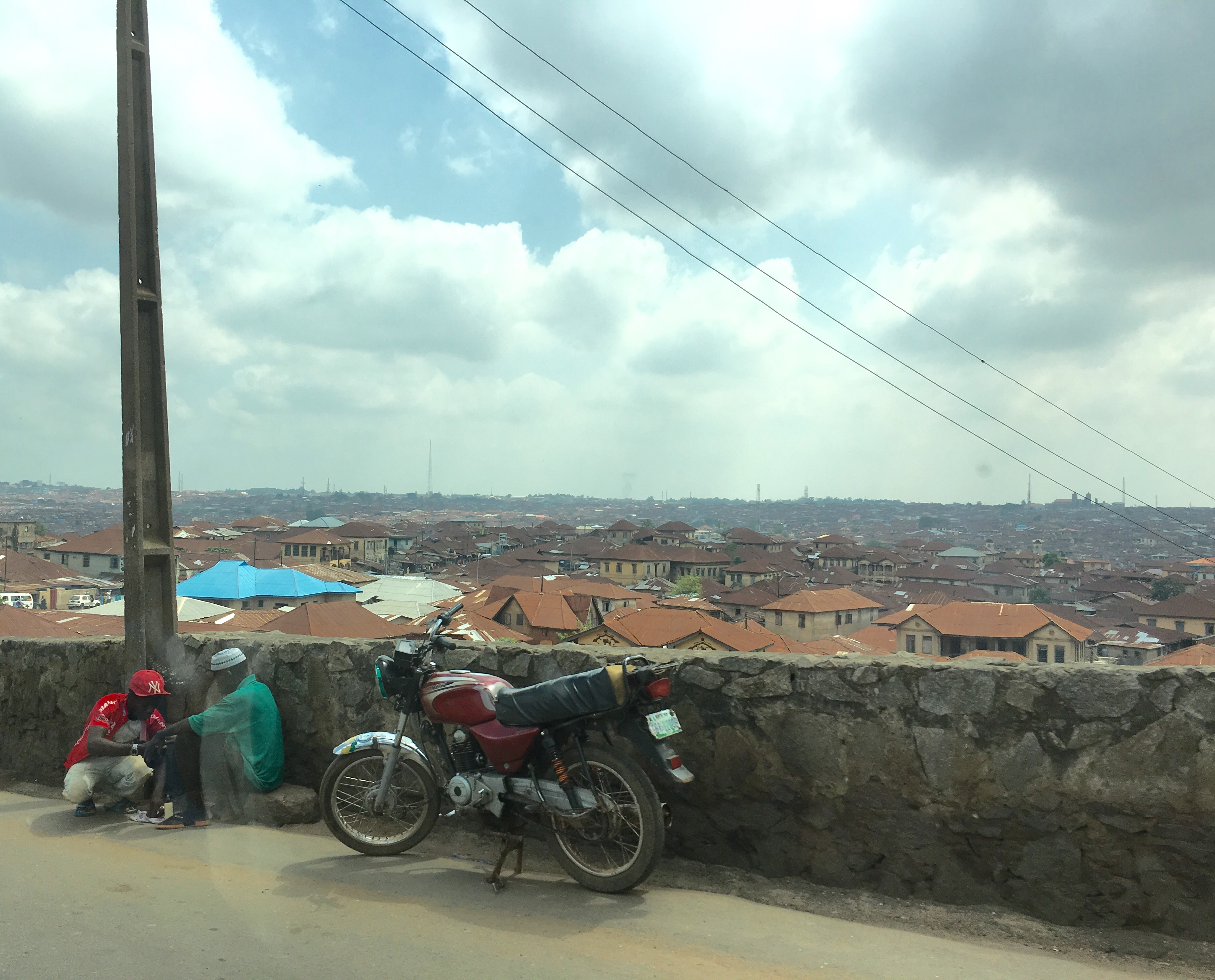 As seen whilst driving round one of the oldest cities in Nigeria, Ibadan, on a very hot day. An 'Okada' man tired from riding his motorcycle and picking passengers all day, stops to get his nails cleaned. This is an image from Nigeria